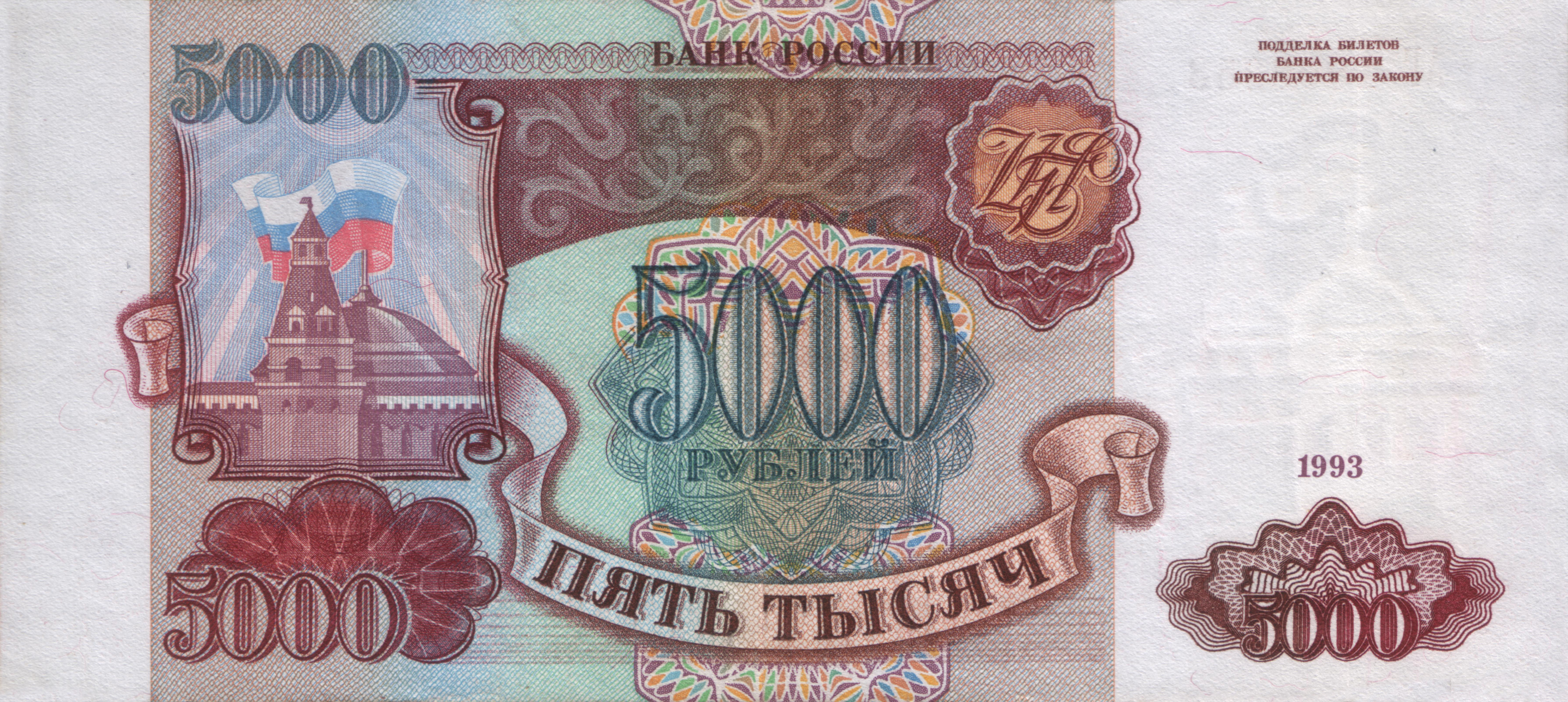 Russian banknote. 5000 rubles. Version of 1993 year. Front